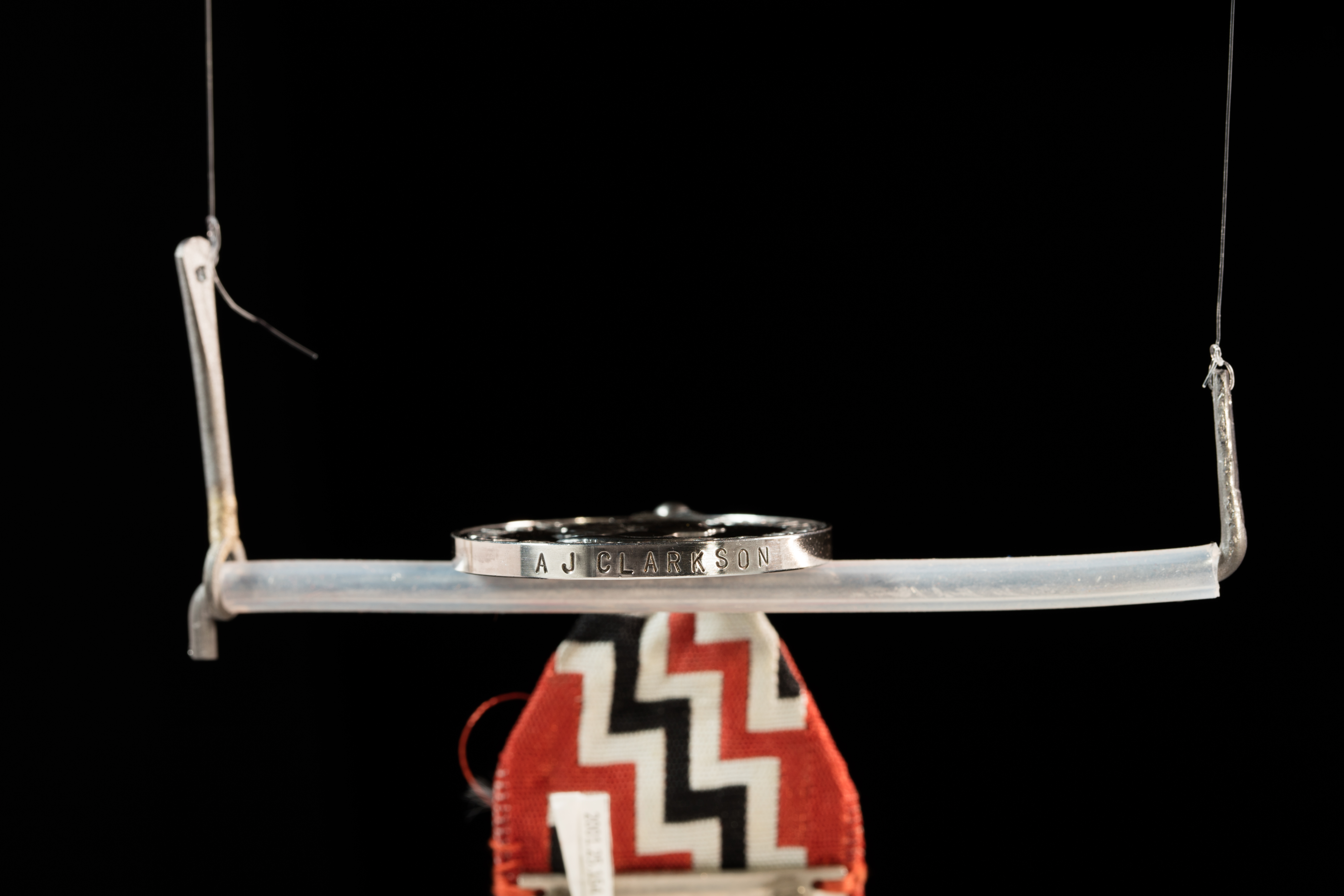 Queen's Service Medal (Public Service) (QSM) awarded to Anthony James Clarkson for Public Service in 1976 sterling silver medal, 36mm diameter, with ribbon obverse- crowned head of Queen Elizabeth II facing right inside inscription- ELIZABETH II DEI GRATIA REGINA F.D. reverse- New Zealand coat of arms inside inscription- THE QUEEN'S Service MEDAL, with name of sub-division PUBLIC SERVICE rim- engraved with initials and surname of recipient- A.J.CLARKSON ribbon- red, white and black grosgrain ribbon with Māori Poutama motif of black, white and red diagonal 'steps' (signifying steps of service) at centre with red stripes on either side